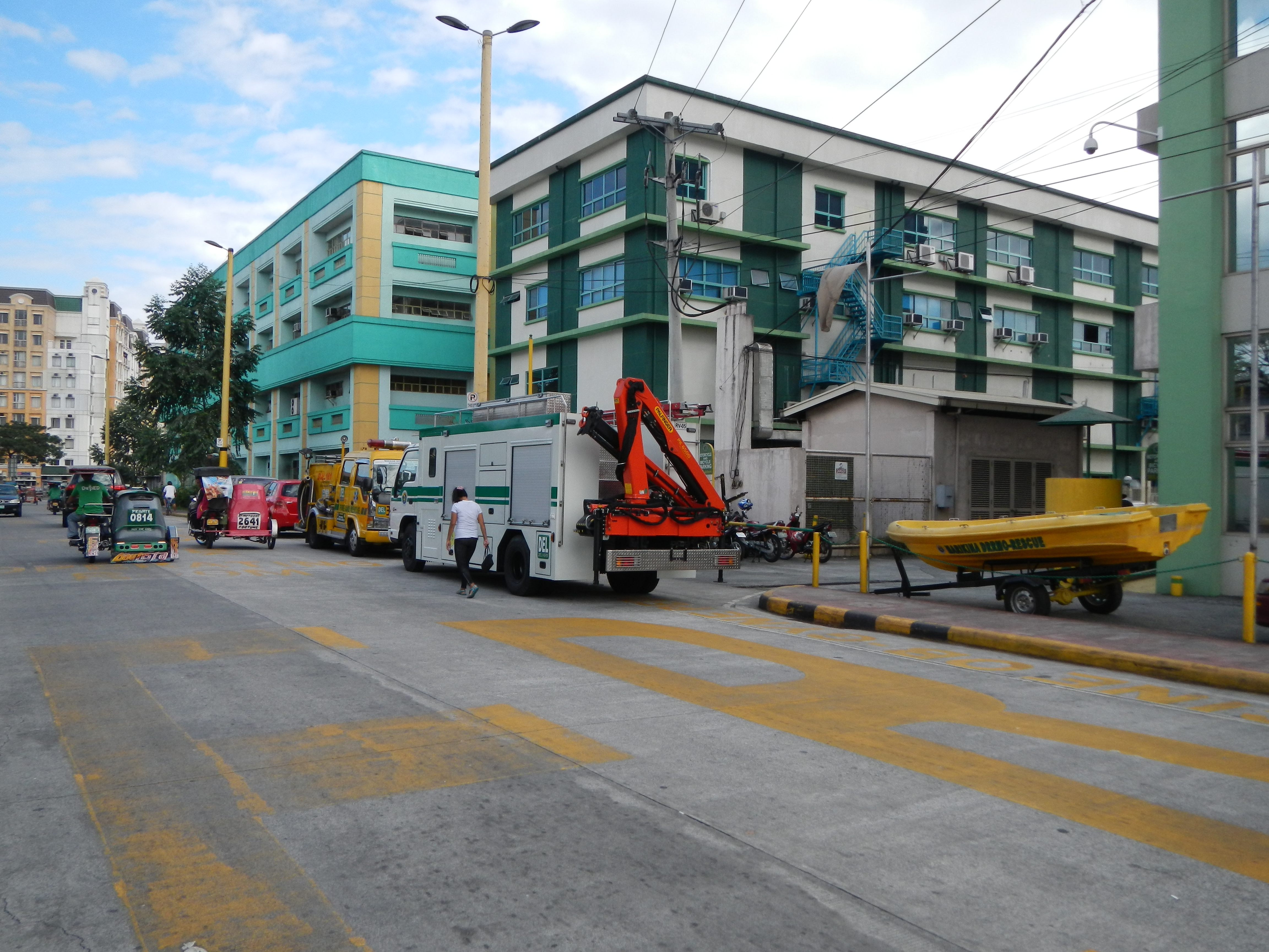 Upload Wizard photos of the - Smart Araneta Colisuem, LRT Santolan,[1] Marikina City[2] Marikina Healthy City Center Building City Health Office, Pedestrian Waiting Shed, Marikina Statue depicting Health by Doctor and small boy, [3] Sumulong Highway[4].